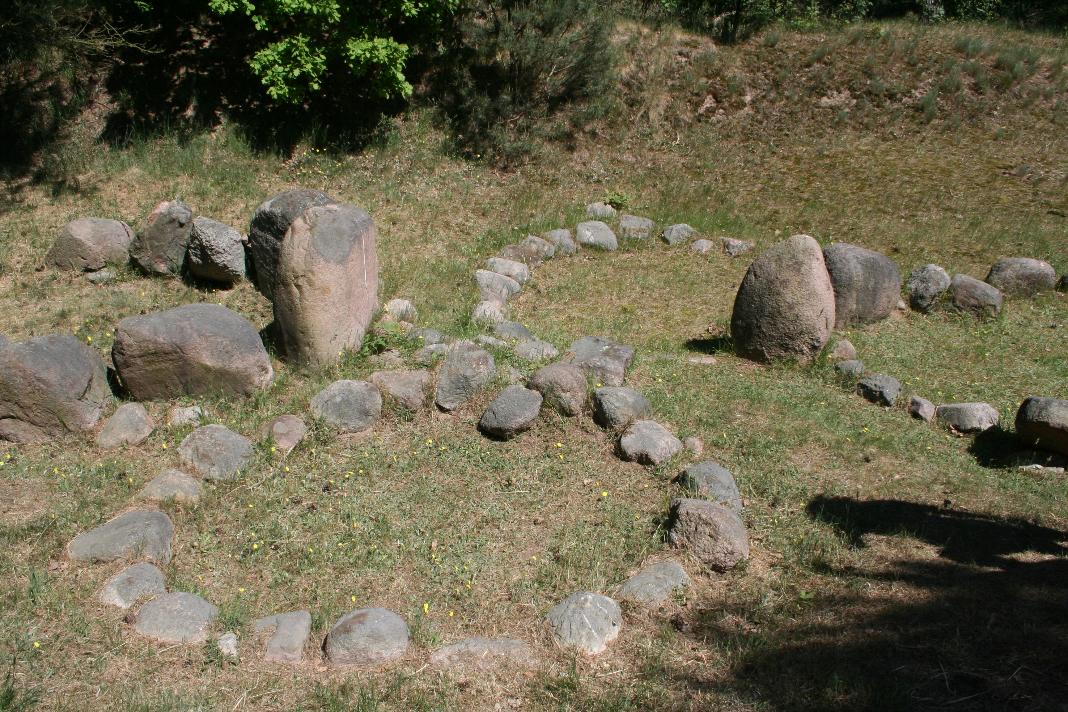 Viking age ship settings at Menzlin